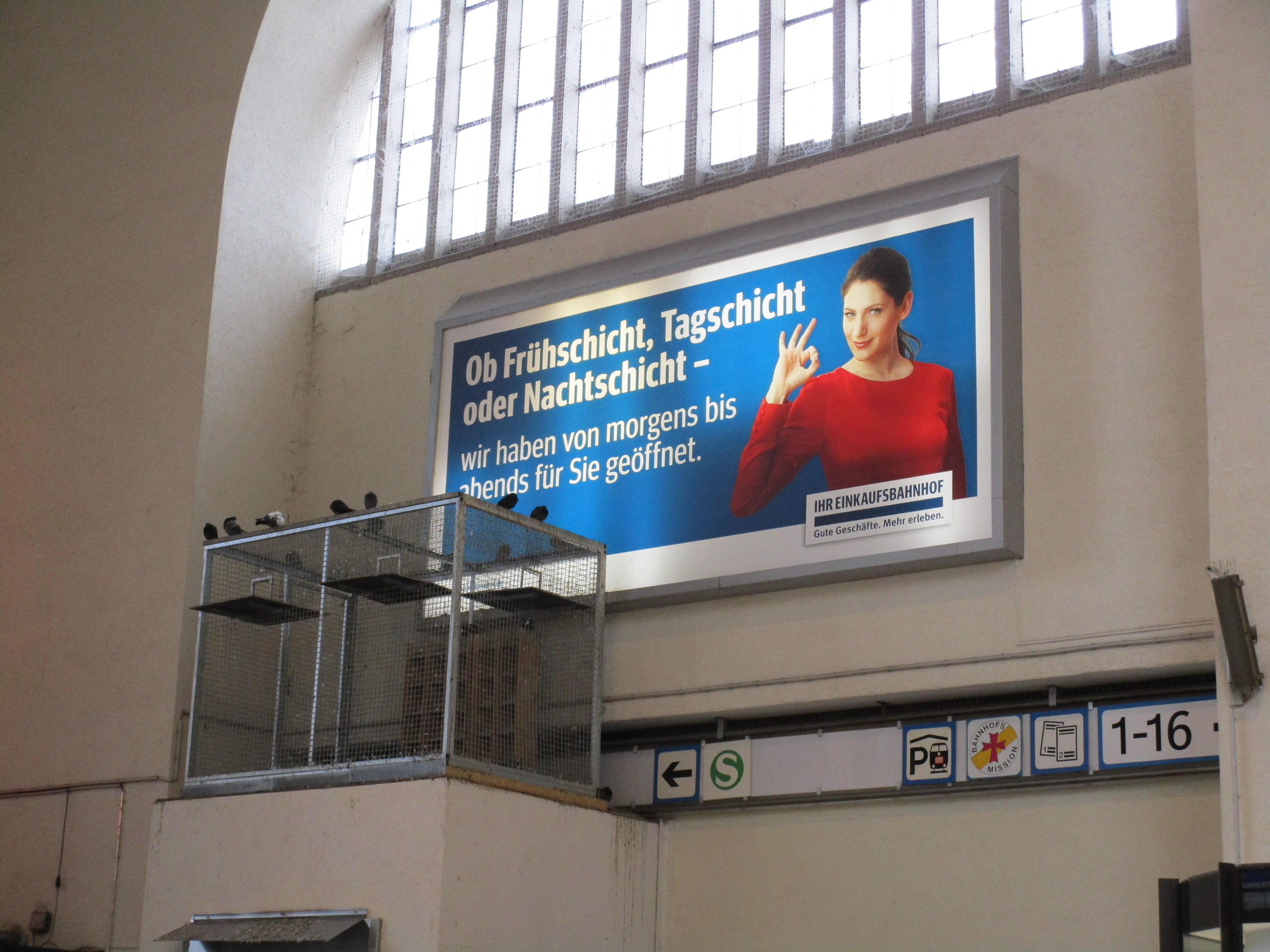 Pigeon control at Stuttgart main station.